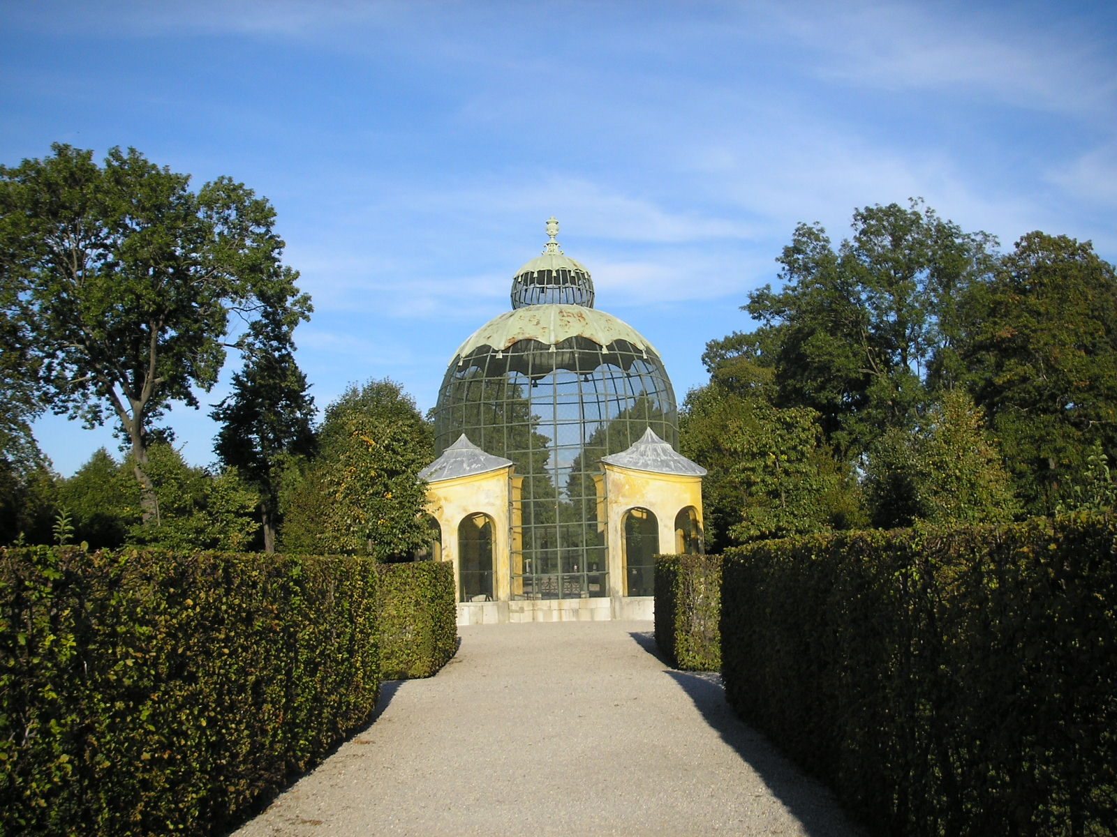 The Columbary or dovecote (Taubenhaus) at Schönbrunn.